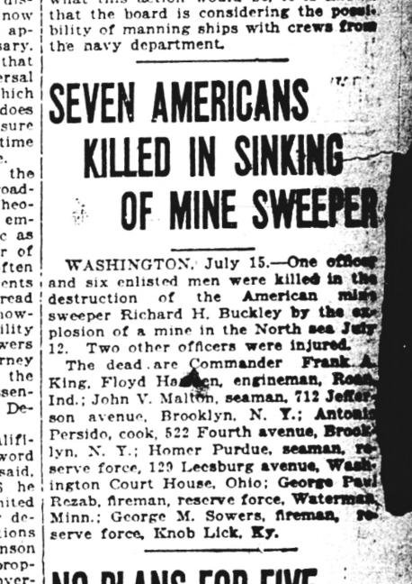 News paper article about the sinking of the USS Richard Bulkeley 1919